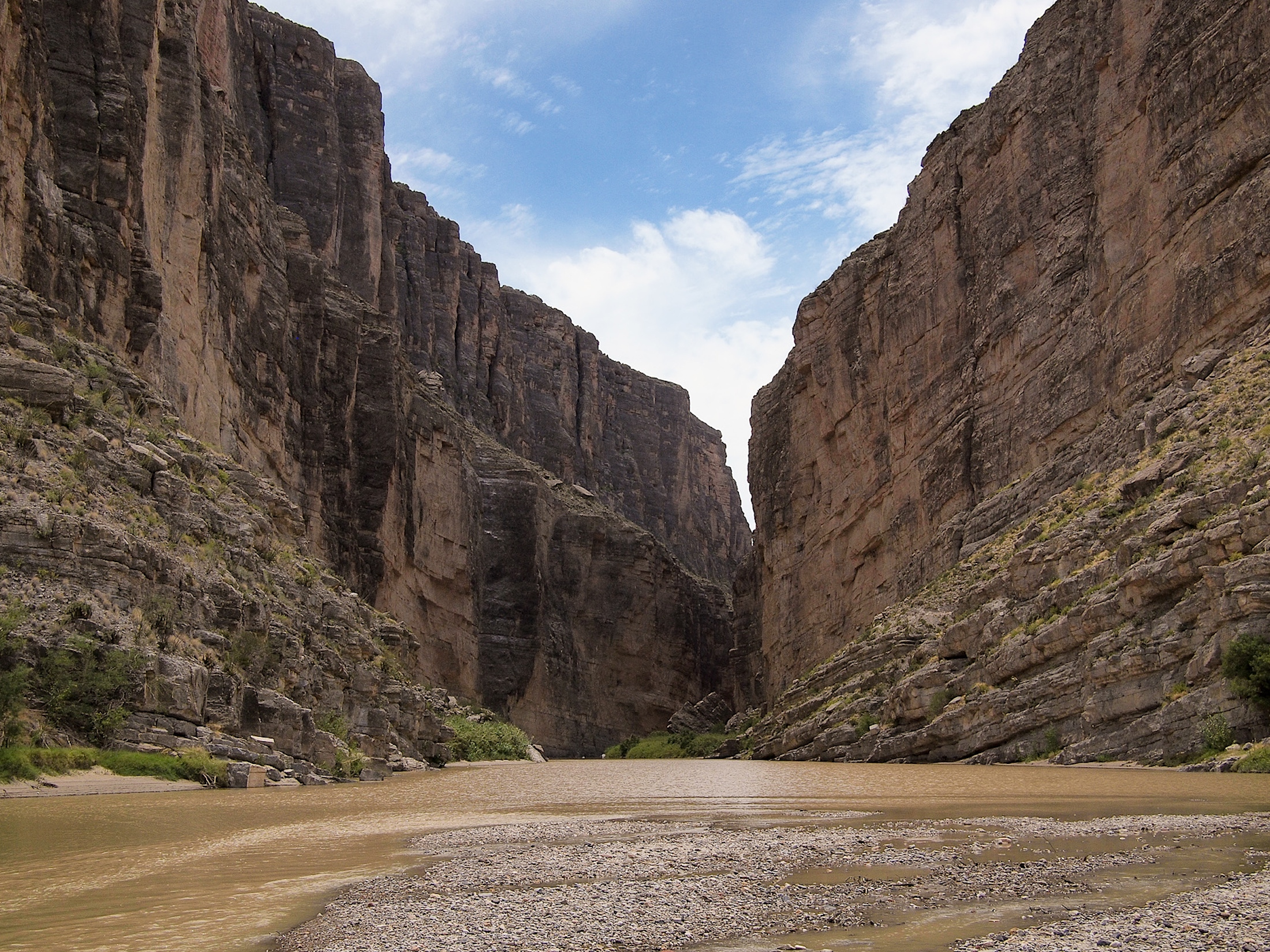 Santa Elena Canyon — in Big Bend National Park, Texas